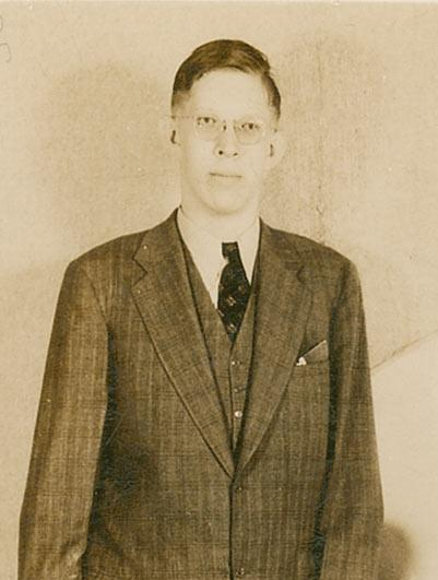 Front of postcard of Robert Wadlow with his father